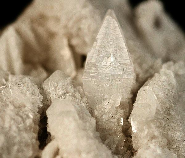 Alstonite, Baryte Locality: Brownley Hill Mine (Bloomsberry Horse Level), Nenthead, Alston Moor District, North Pennines, North and Western Region (Cumberland), Cumbria, England, UK (Locality at ) Size: 4.3 x 3.4 x 3.0 cm. Alstonite is a very rare barium, calcium carbonate and this fine combination specimen from the co-type locality features a sharp, 1.2 cm, pseudo-hexagonal dipyramid set amidst sugary, snow-white baryte crystals on a bit of sulfide matrix from the historic Brownley Hill Mine of England. This is an excellent combination specimen of this rare species and classic locale. Ex. Mullane Collection.